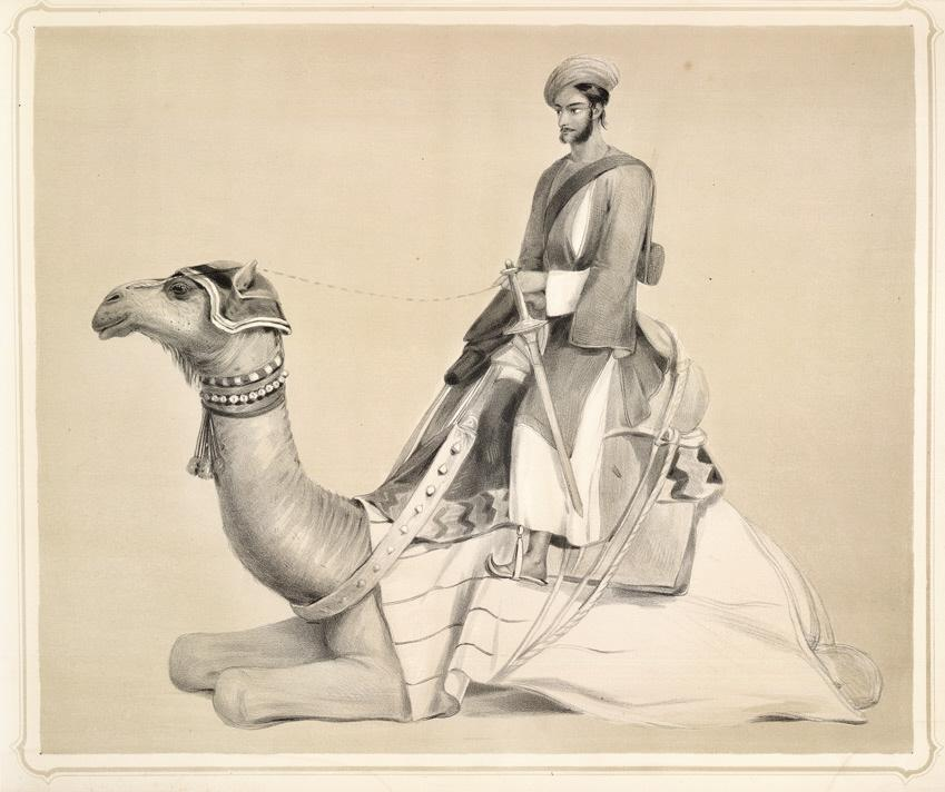 Lithograph (sketch) of an attendant in an Indian Camp wearing loose white paijamas. Uploaded by Fowler&fowler«Talk» 07:09, 24 November 2008 (UTC)